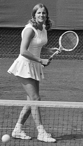 West German tennis player Katja Ebbinghaus at the International Dutch Championships in Hilversum